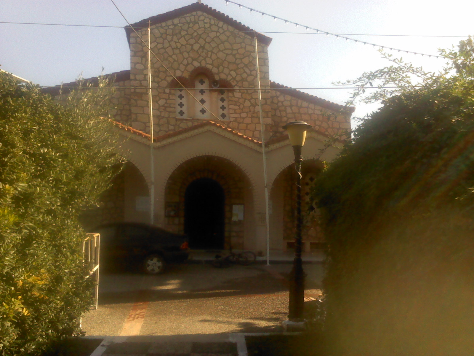 Churche Agios Andreas Skala Oropou